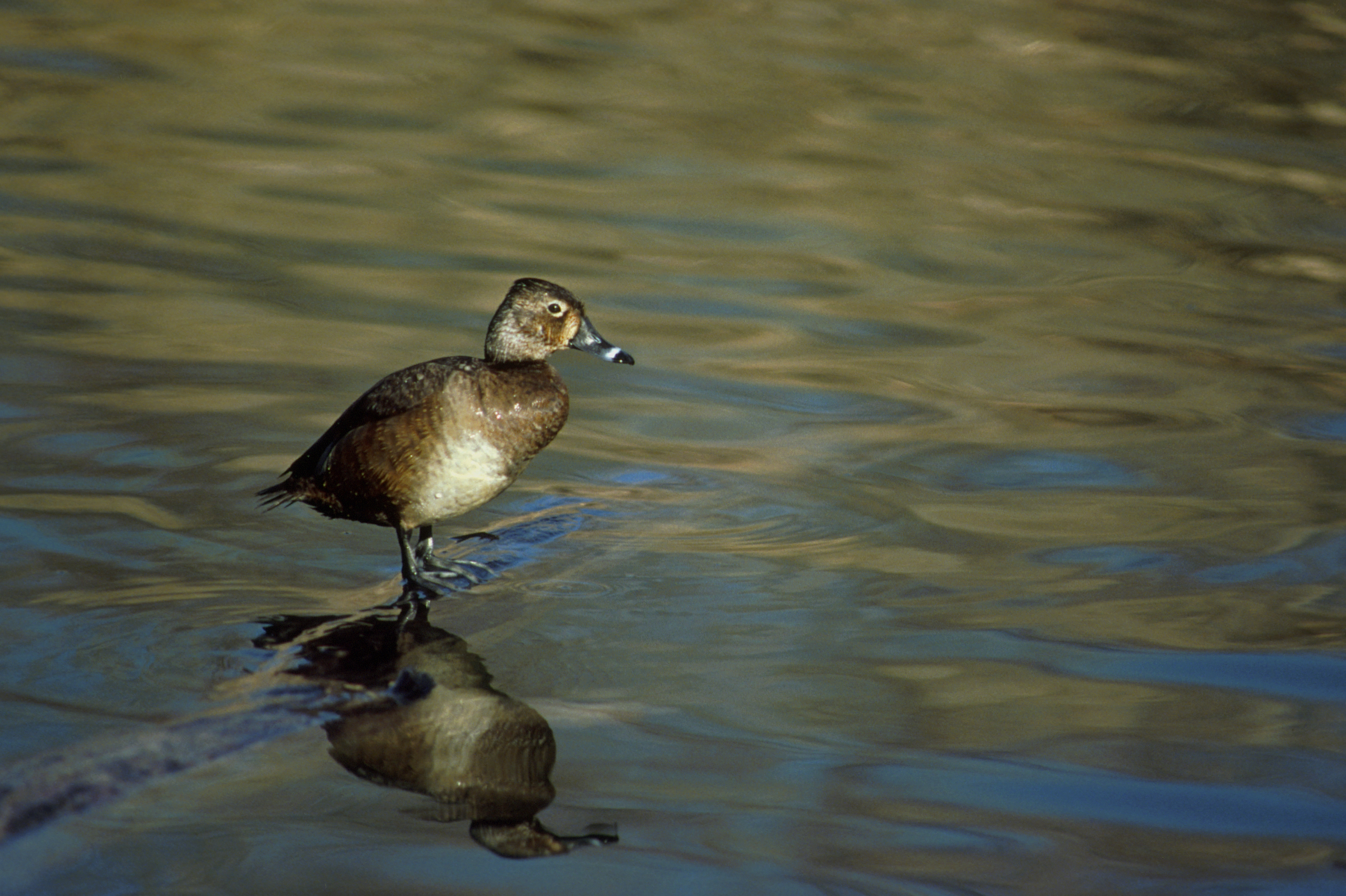 Female Ring-necked Duck Aythya collaris, DeSoto National Wildlife Refuge, Iowa.